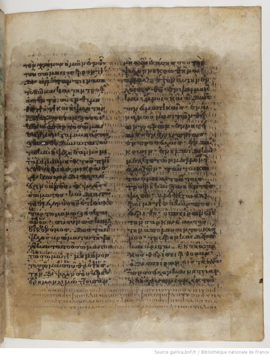 Codex Ephraemi